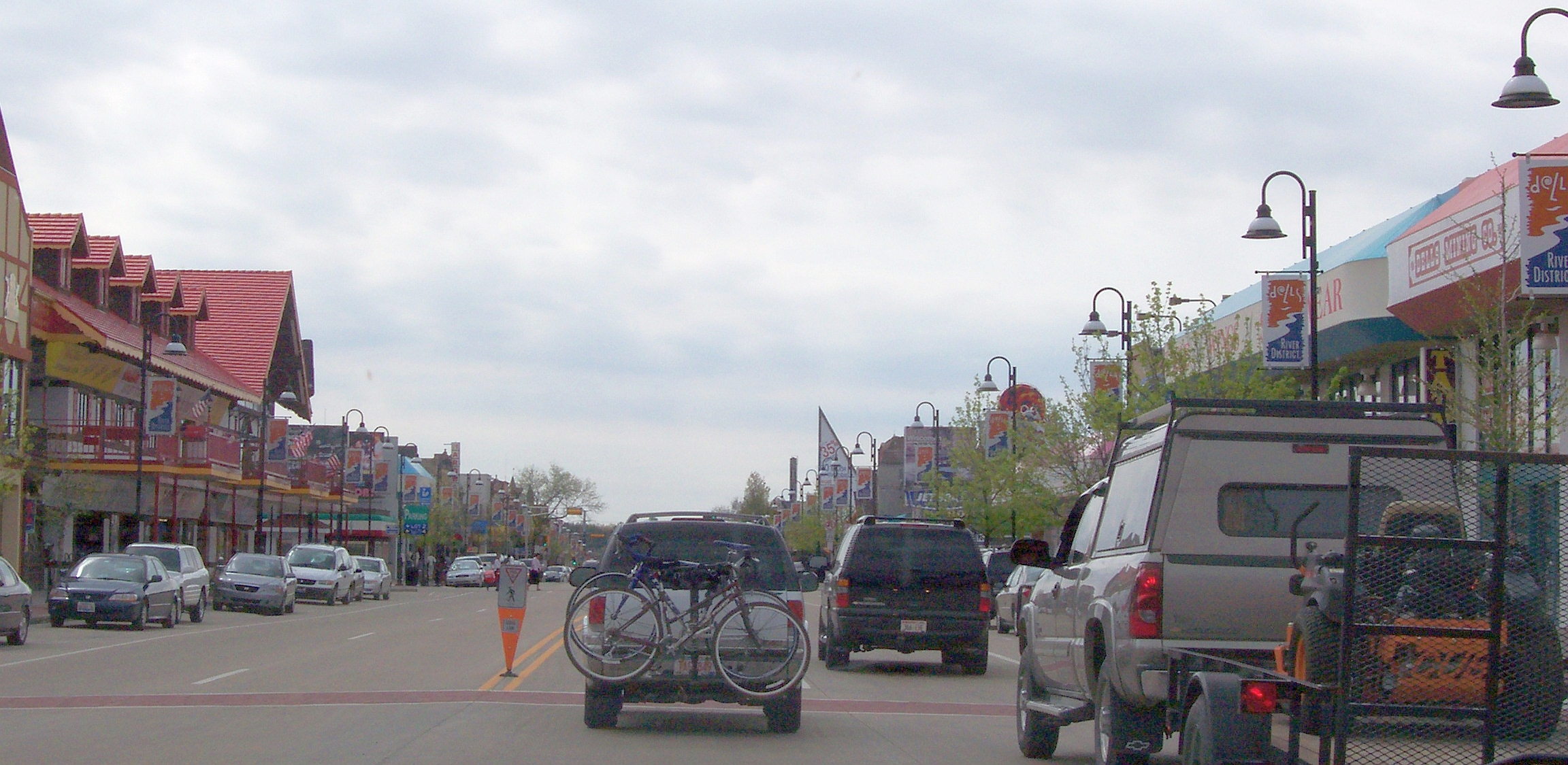 Looking west on Broadway (WI 13/WI 16/WI 23) from Cedar St. in downtown Wisconsin Dells, Wisconsin, USA.